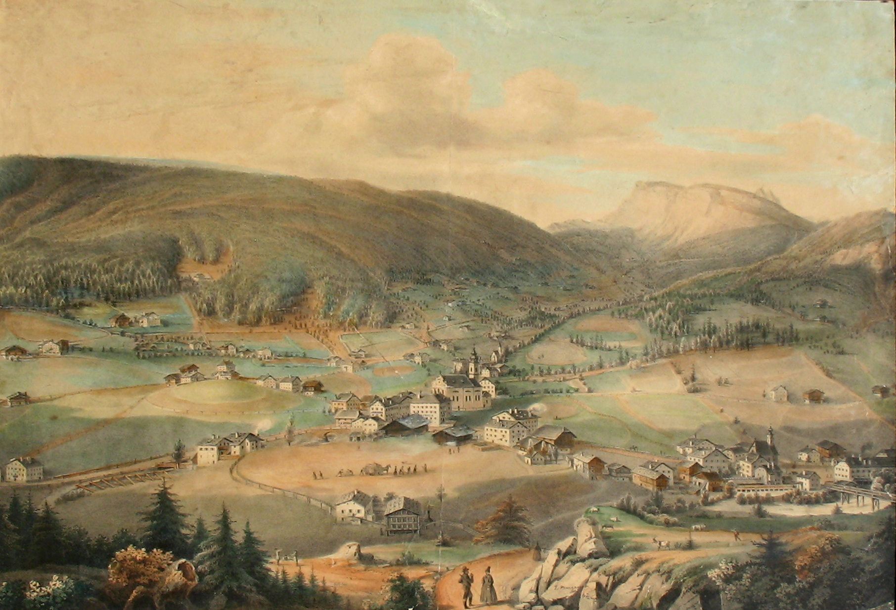 Johann Burgauner (1812 - 1891) was director of the St. Ulrich art school